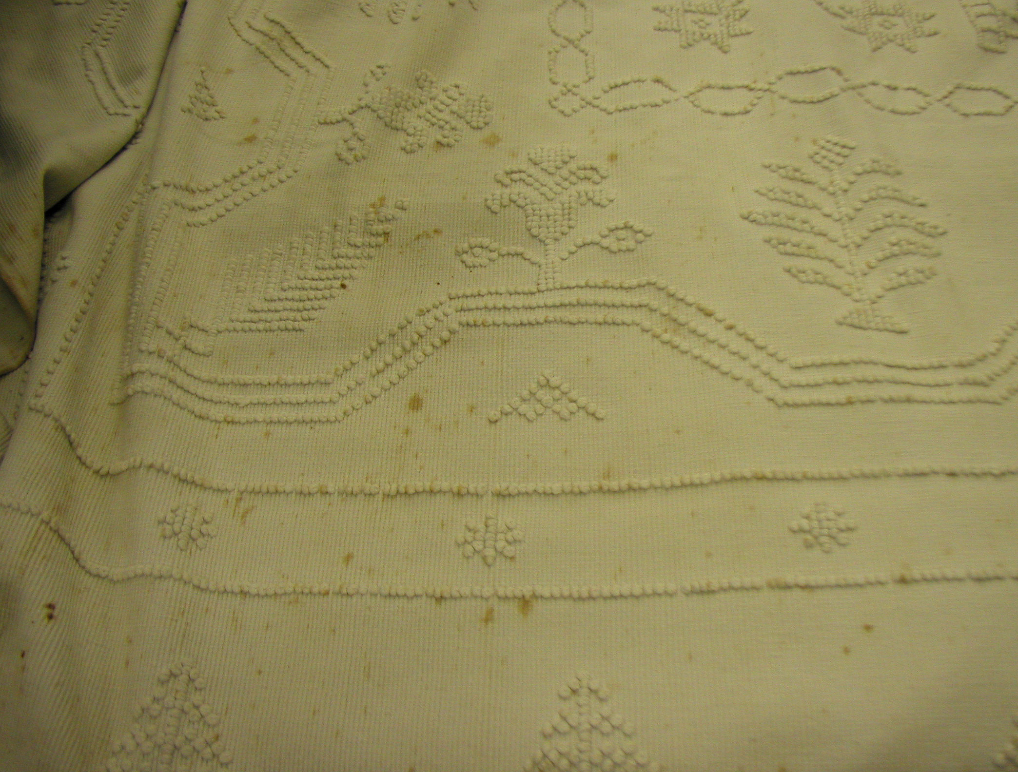 Quilt; white marcella